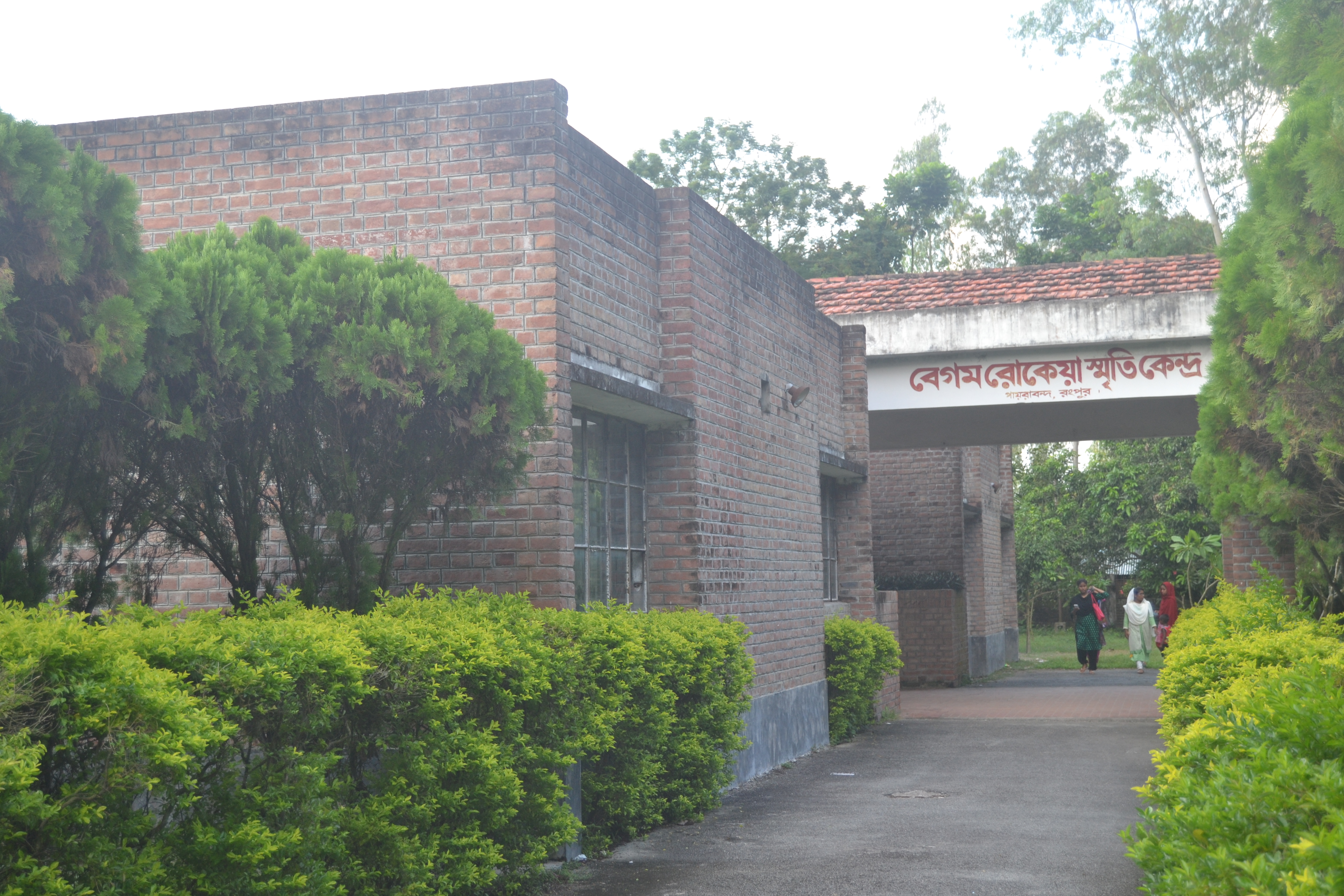 House of Begum Rokeya